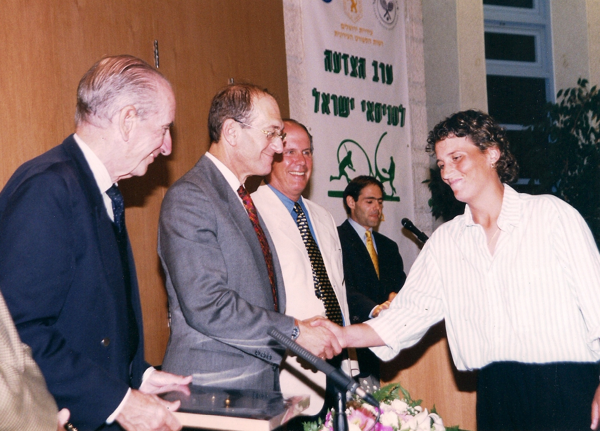 Israeli Tennis player Ilana Berger selected as "The Jubilee Tennis Player", receiving the award from Jerusalem's mayor Ehud Olmert